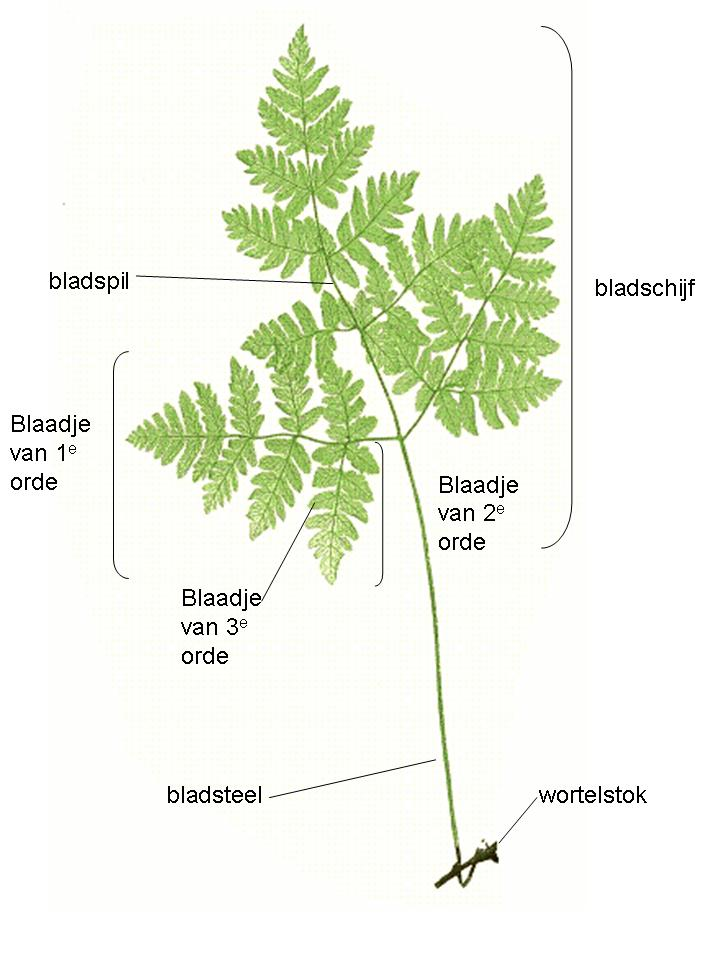 Fern frond anatomy, after a plate from Thomas Moore